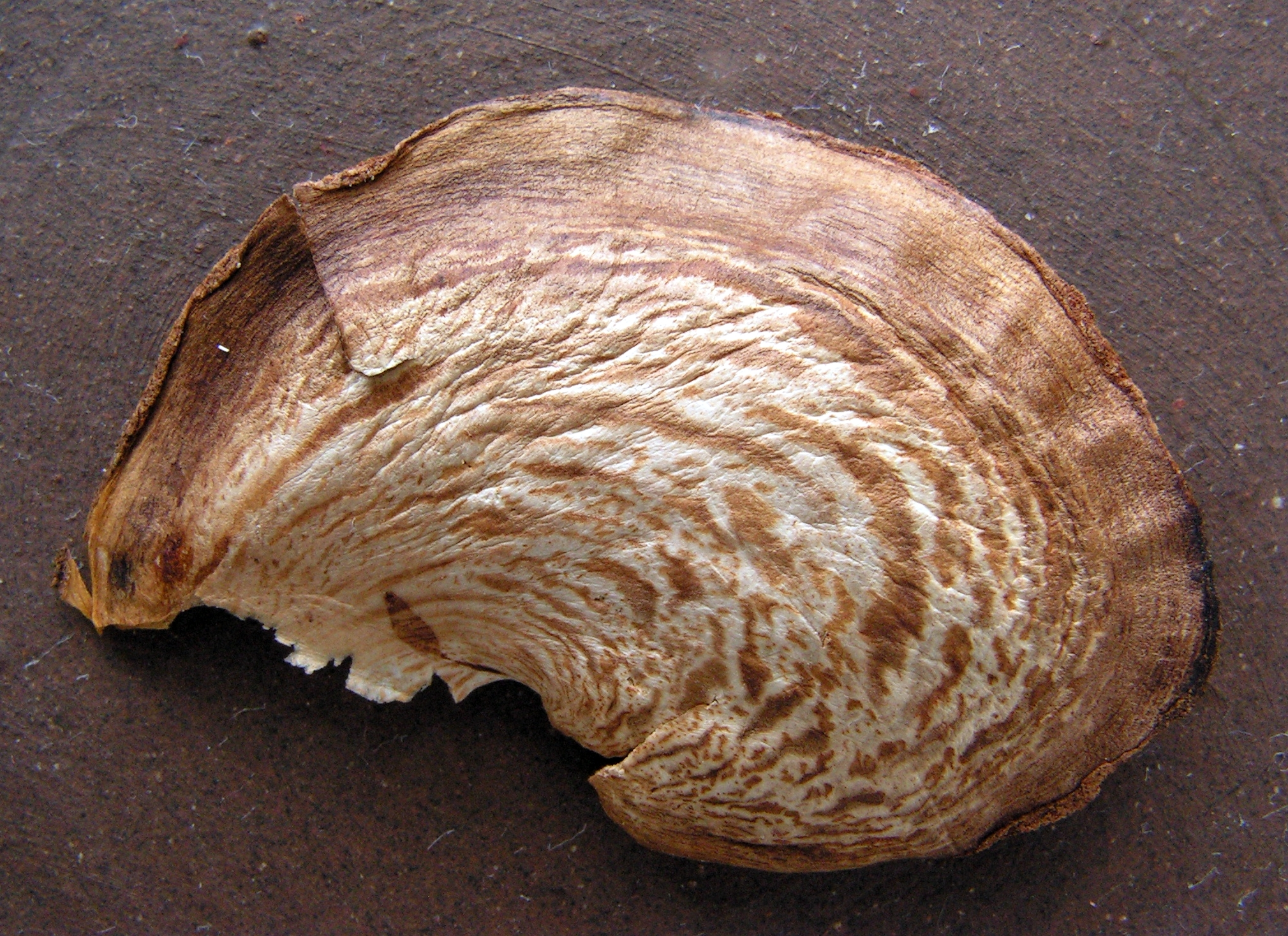 Mangifera indica, seedcoat.